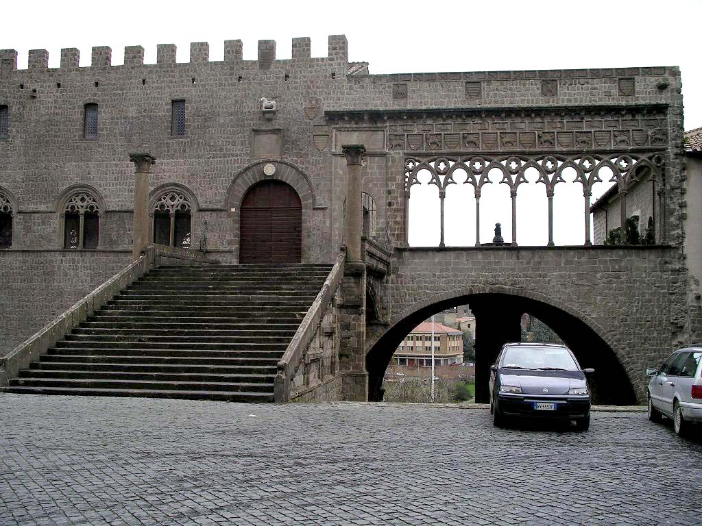 Palazzo Papale in Viterbo, Italy.